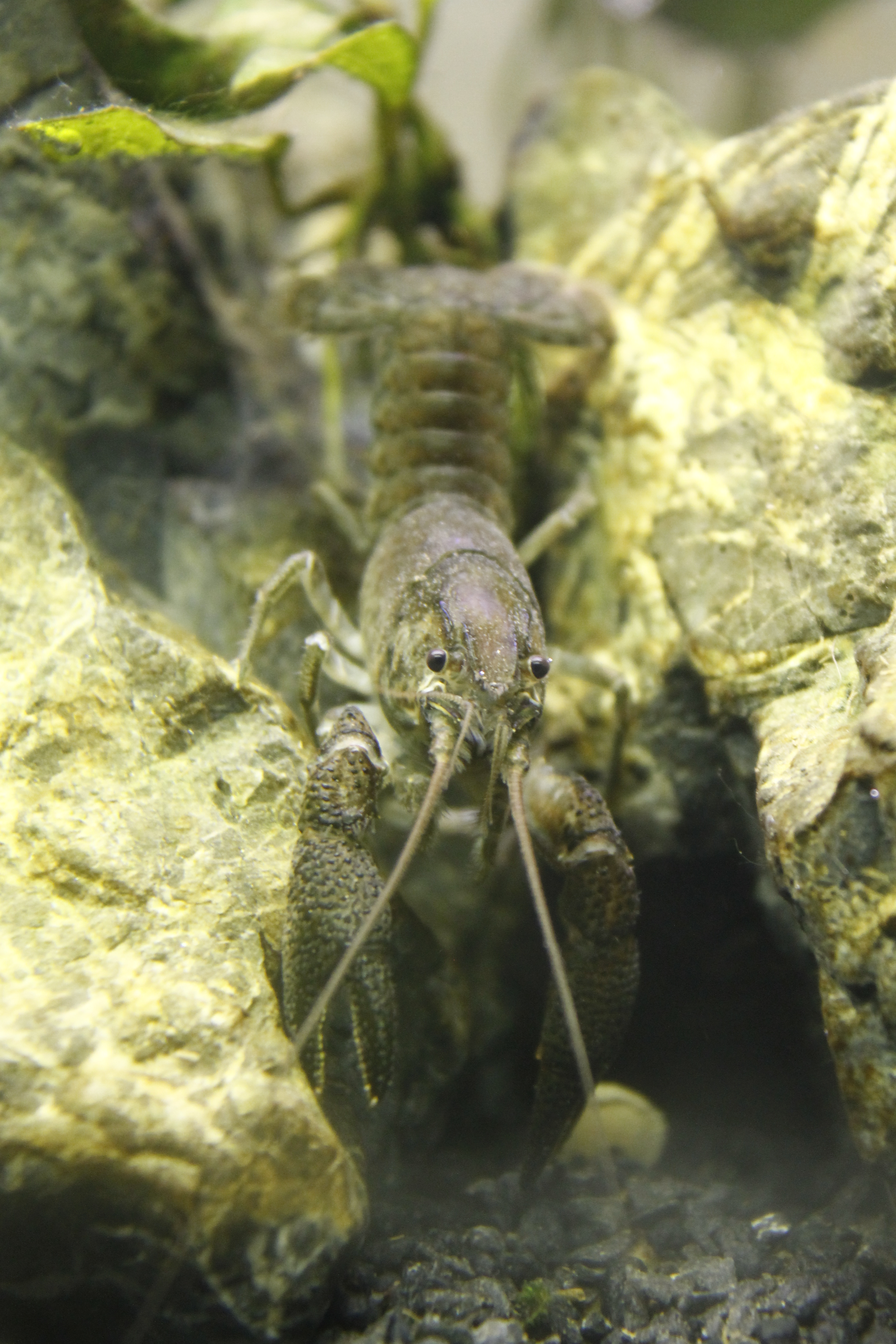 Captive-bred Procambarus vazquezae in an aquarium.